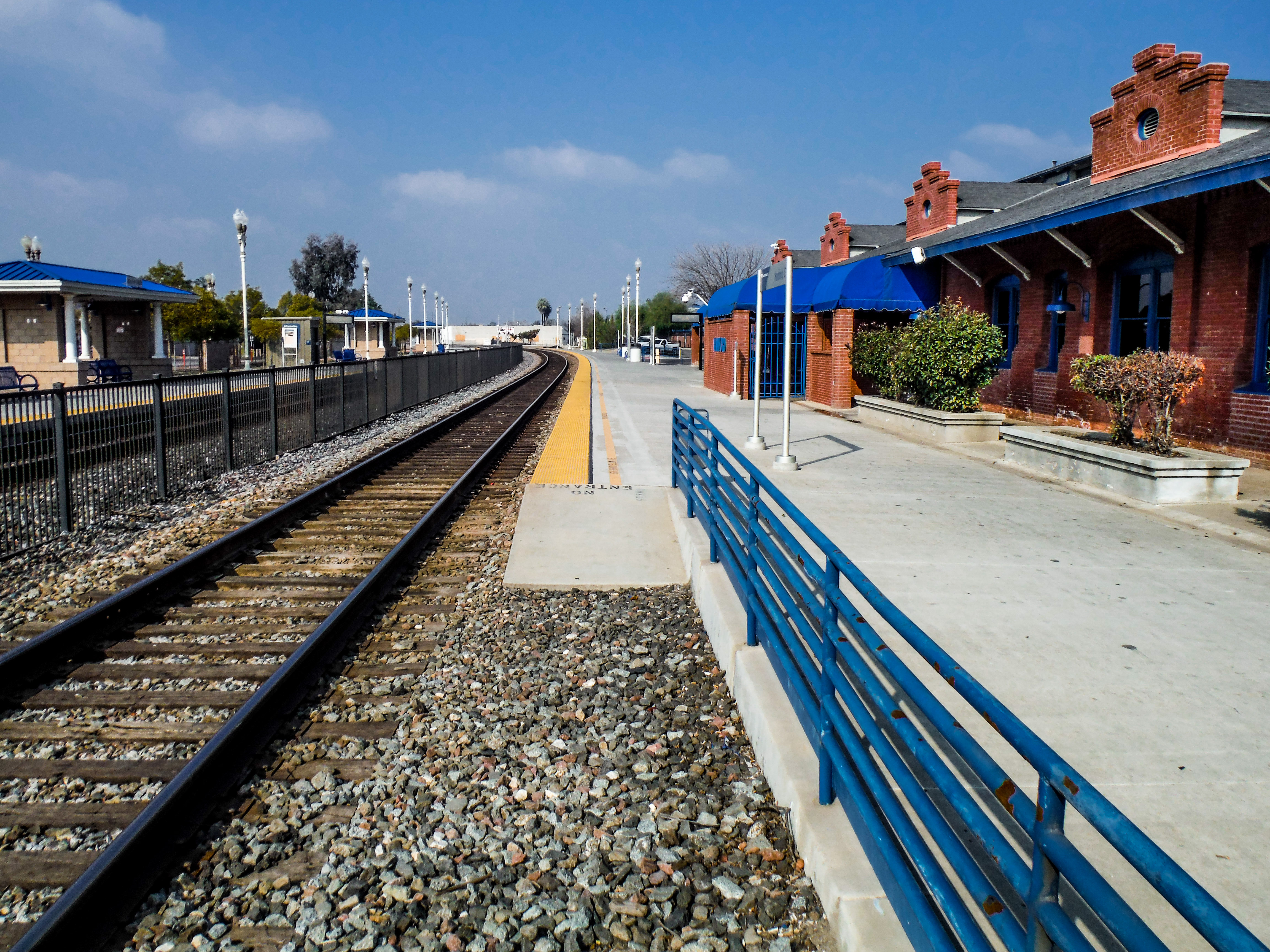 Hanford station facing north in January 2015